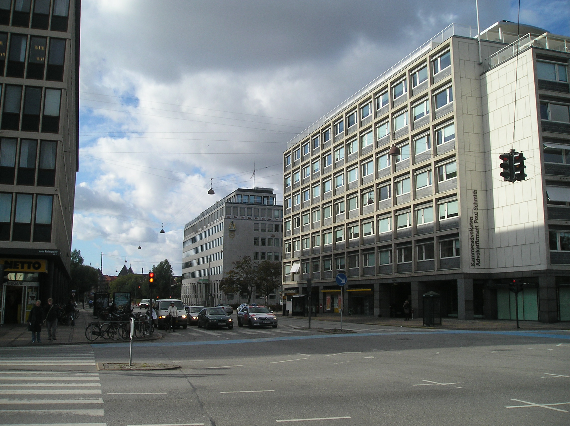 The street Kampmannsgade in Copenhagen. The building on the right is known as Shellhuset.